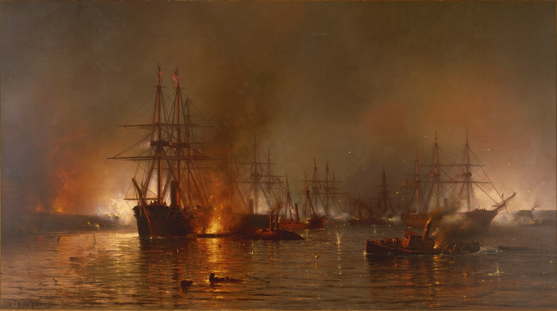 David Glasgow Farragut (1801-70) officer in the United States navy during the American Civil War; Battle of New Orleans, 25th April to 1st May 1862; Union victory